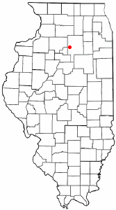 Category:Illinois city locator maps